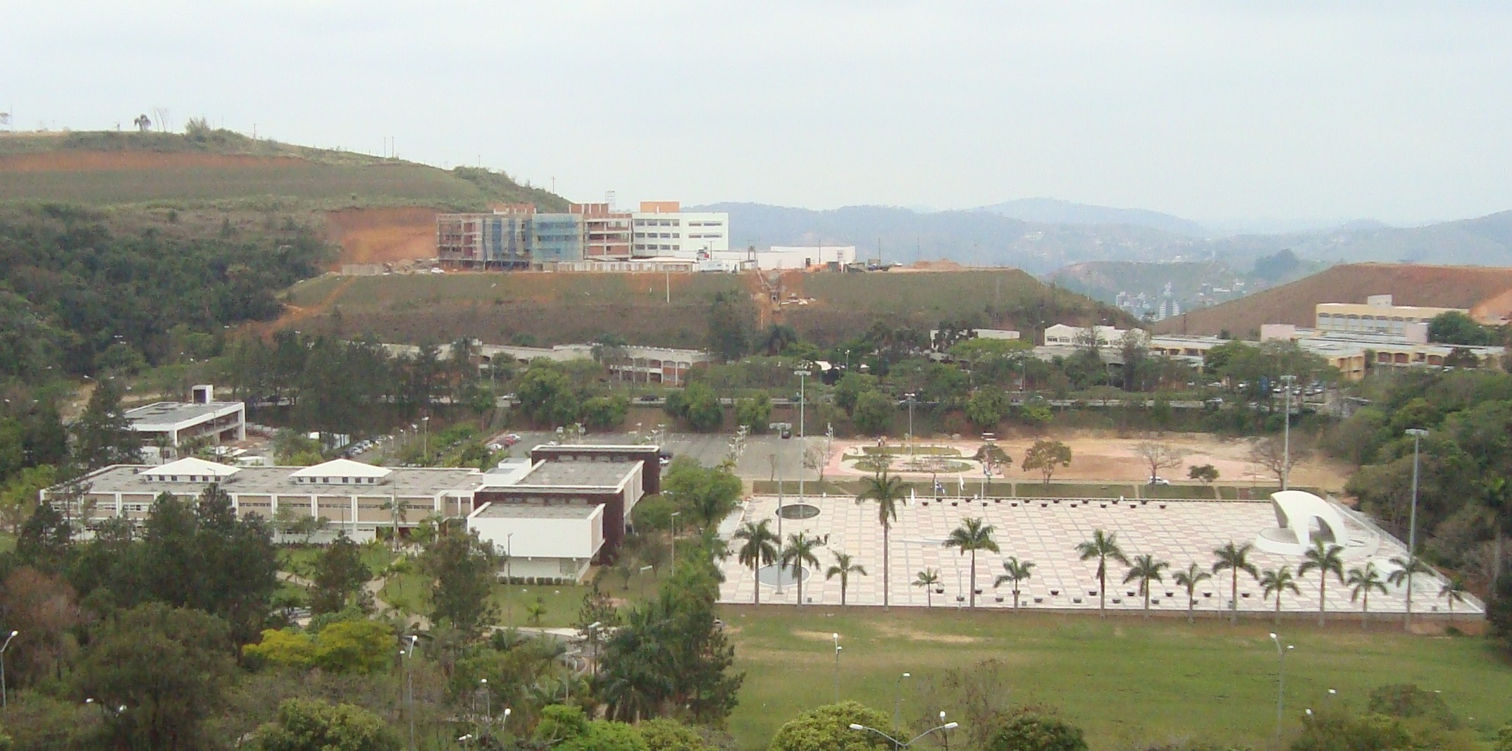 University of Juiz de Fora, Brazil